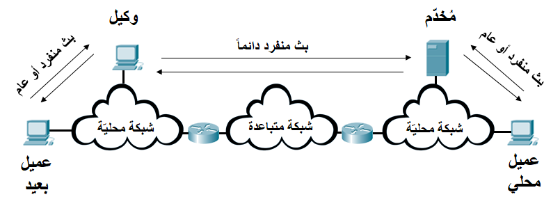 The dynamic host configuration protocol (DHCP) according to client/server model, as well as the traffic routing types between the components of the protocol topology.